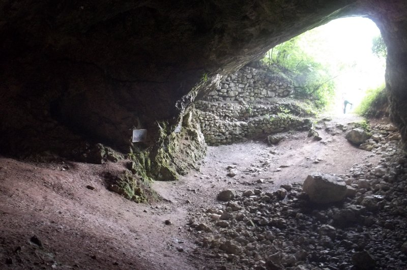 Inside of the Szeleta Cave